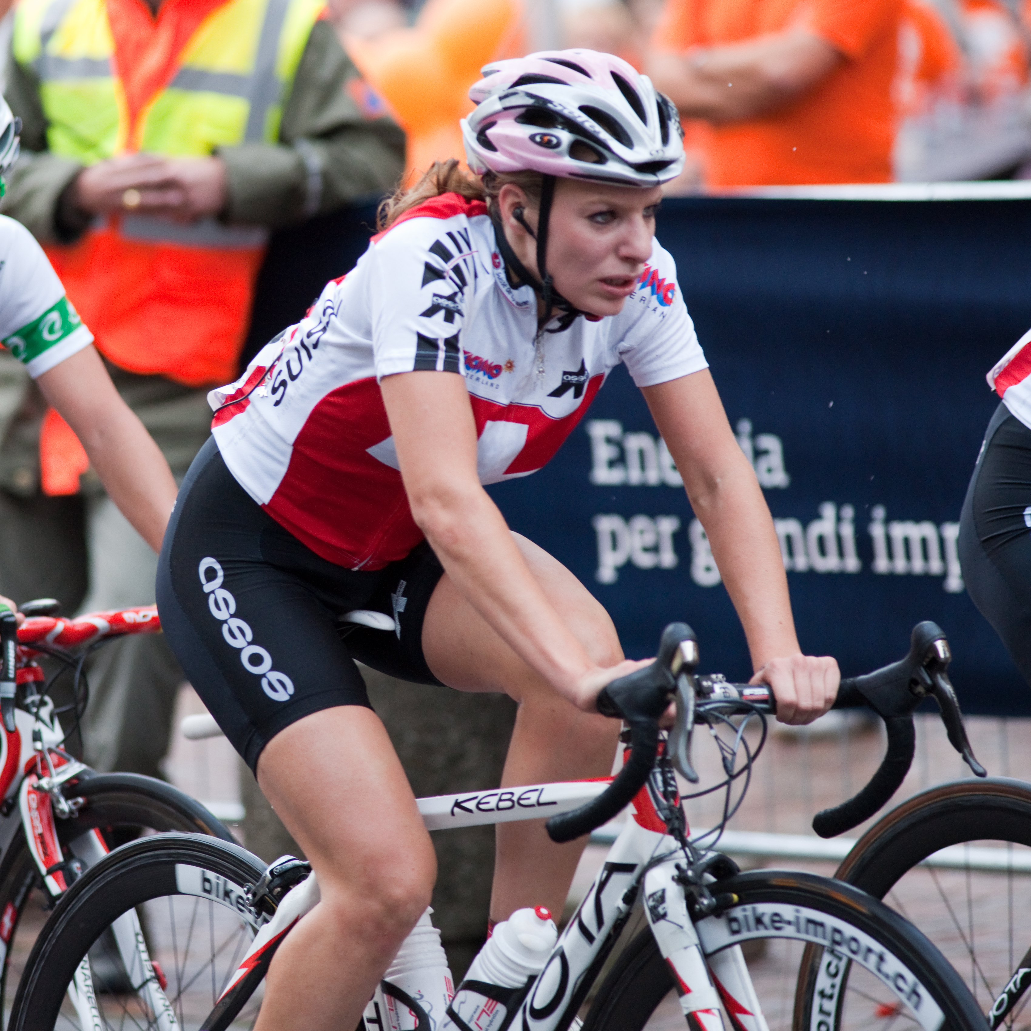 Andrea Wolfer during the 2009 UCI Road World Championships in Mendrisio, Switzerland.